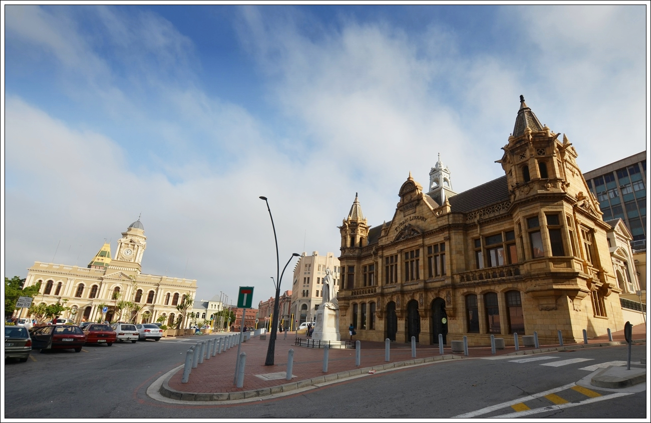 City Hall, Market Square, Port Elizabeth. This impressive City Hall was completed in about 1862, although the clock tower was added later. The neo-Classical style of this building impressed numerous travellers and writers in the 19th Century. This media shows a South African Protected Site with SAHRA file reference 9/2/073/0028.